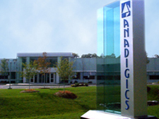 ANADIGICS Headquarters